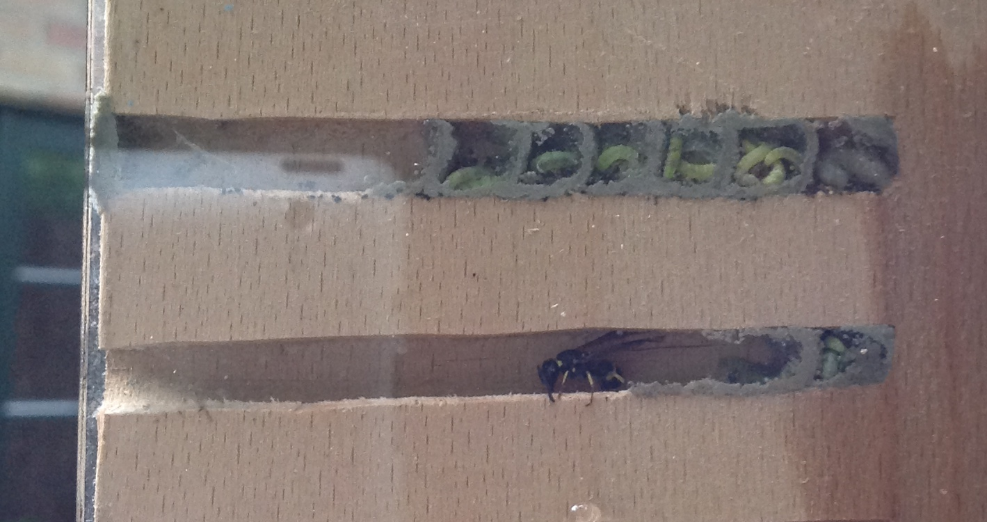 Mason wasp Ancistrocerus parietum in an insect hotel